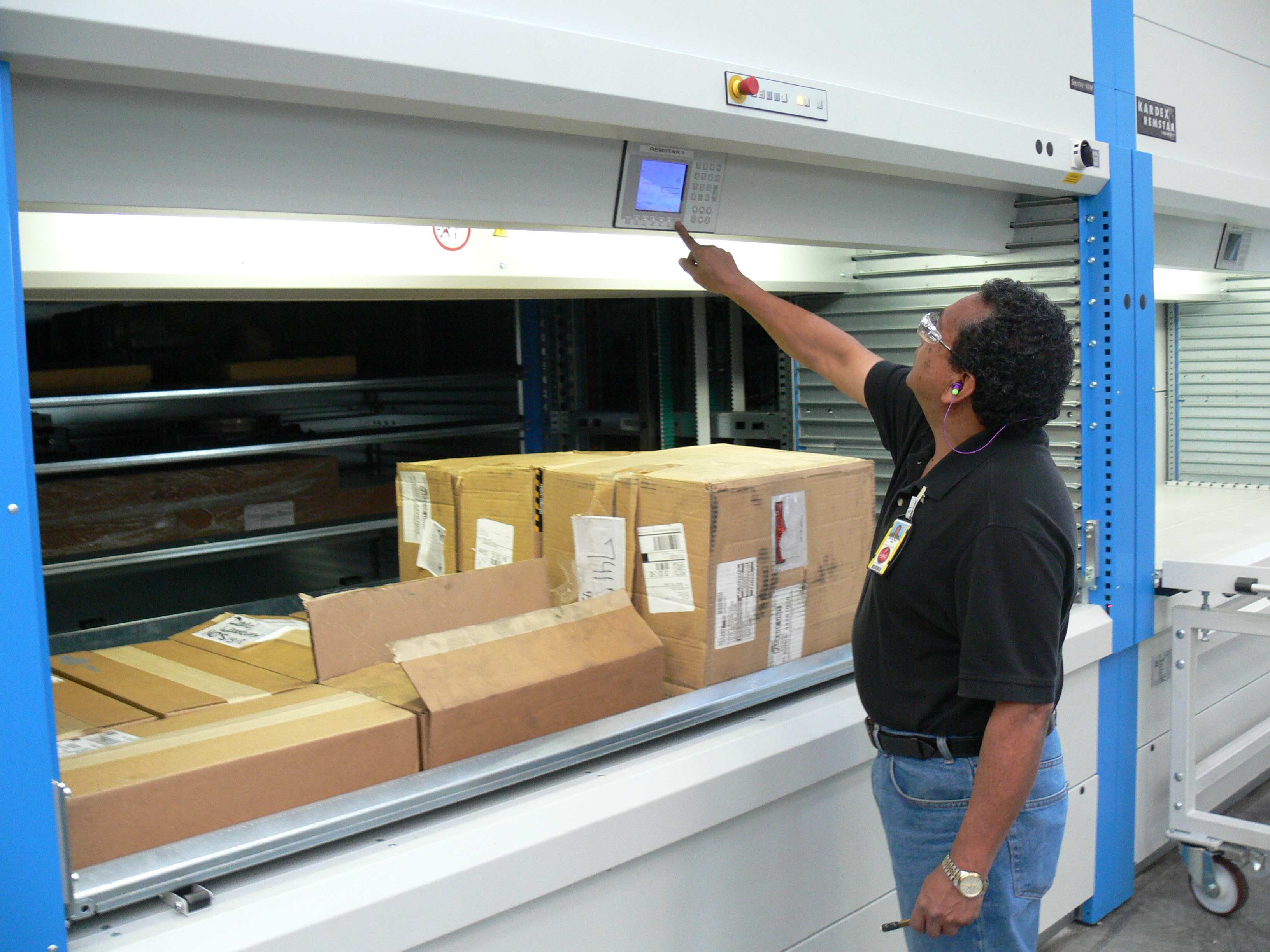 Ricardo Torres, acting supervisor for the Cost Work Center 741 Machine Shop at Maintenance Center Barstow aboard Marine Corps Logistics Base Barstow, Calif., demonstrates how to use the new Kardex Remstar vertical storage carousel inside of the Machine Shop March 7. The storage device will enable workers to more quickly and efficently store and find the parts they need to complete projects in the shop.